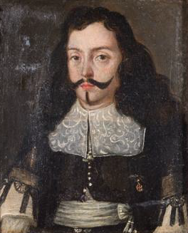 Portrait of King John IV of Portugal (1604-1656)